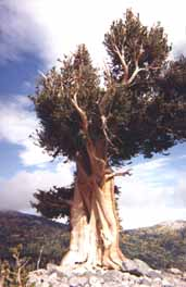 Pinus longaeva, Great Basin Bristlecone Pine